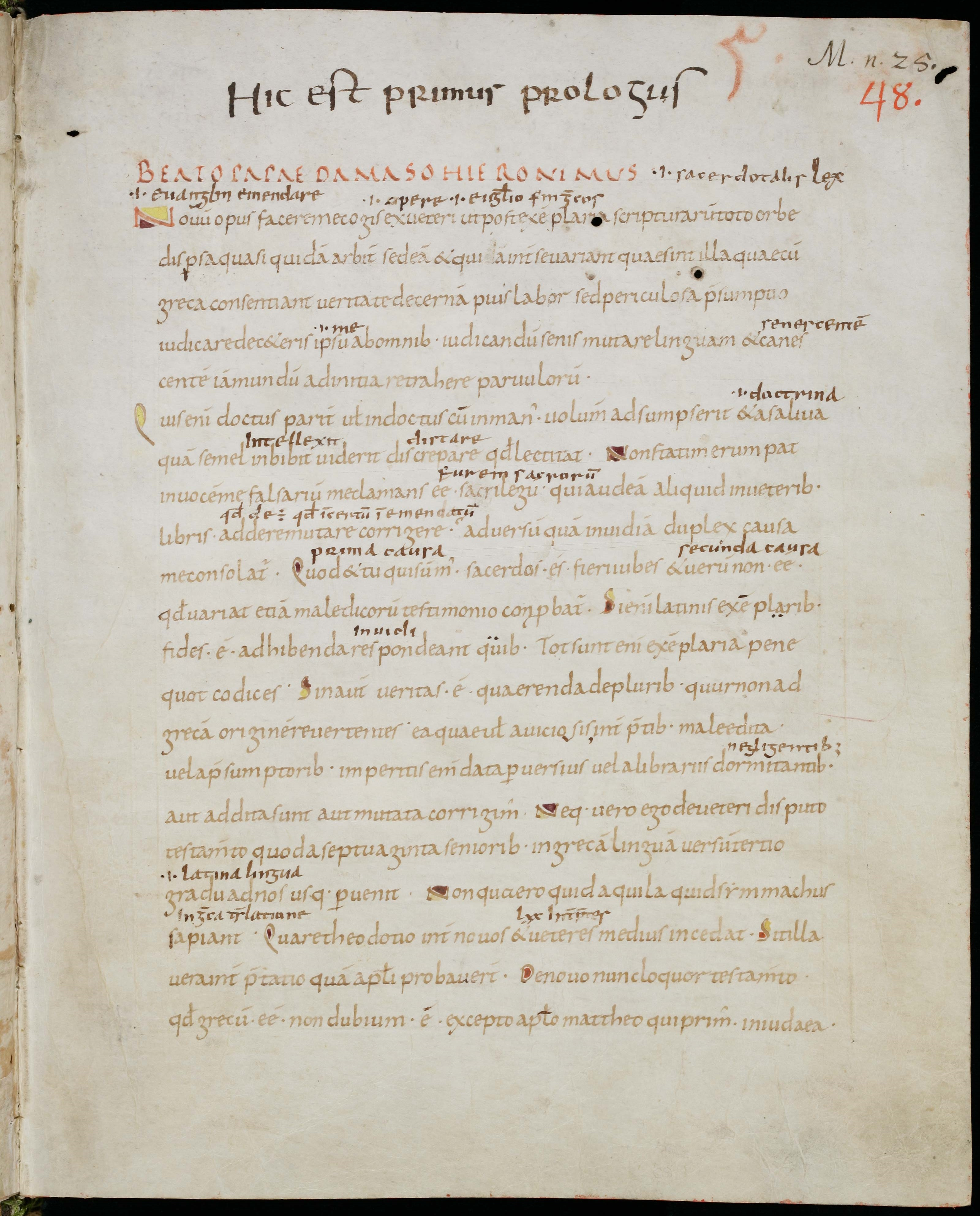 Folio 3 recto, the beginning of Epistle of Jerome to Pope Damasus I